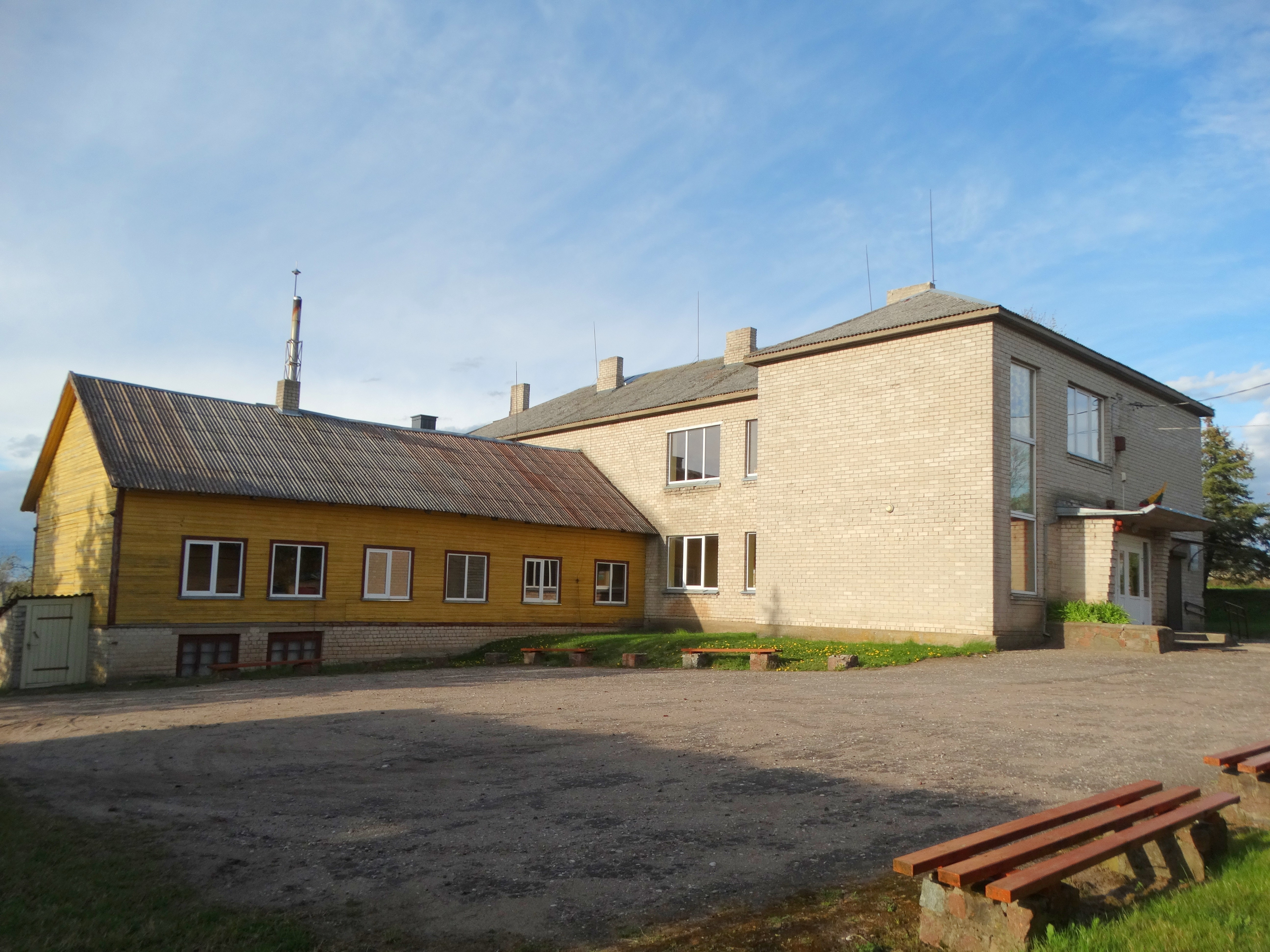 School, Sudargas, Šakiai district, Lithuania